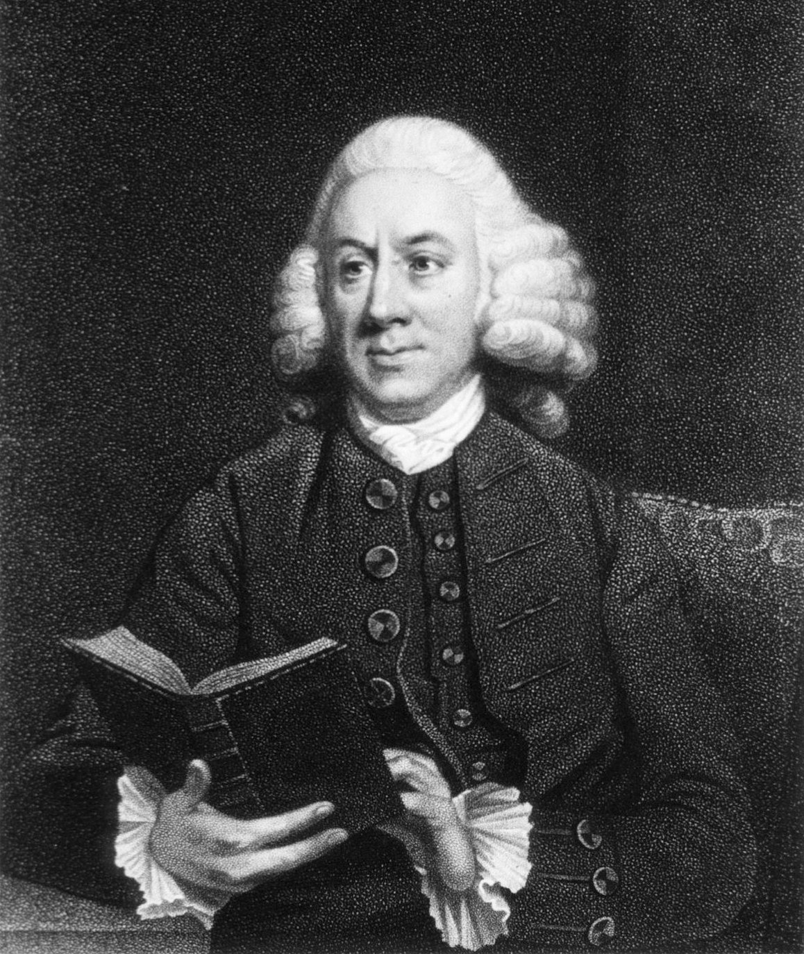 Richard Pulteney, British physician and botanist